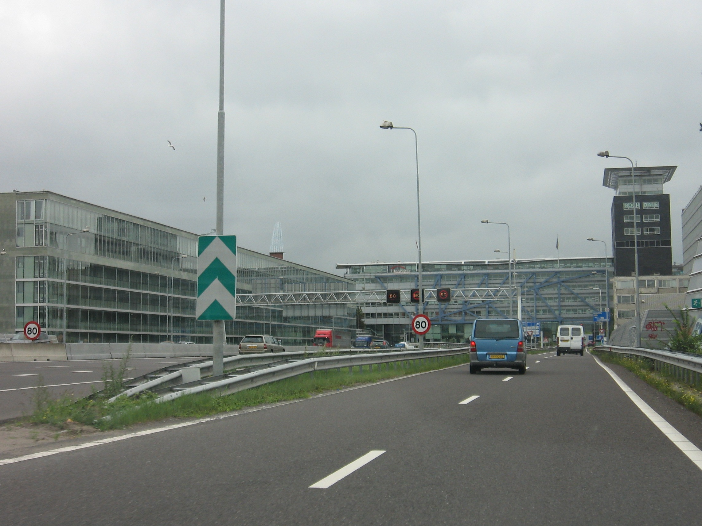 Bos en Lommerplein